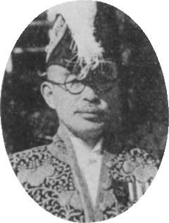 Manjirō Hayama.